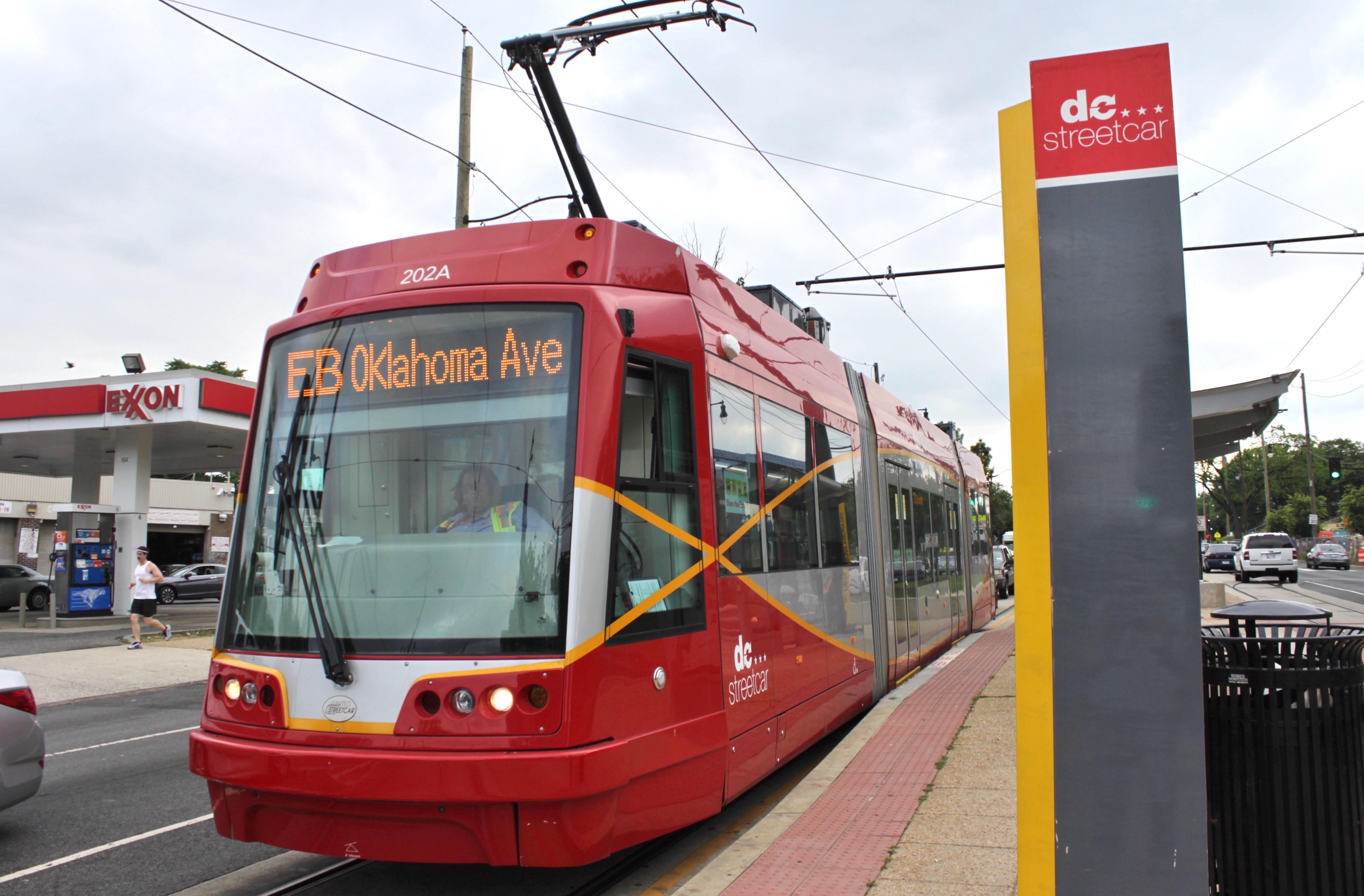 DC Streetcar car 202 (built in 2013 by United Streetcar) at the Oklahoma Avenue terminus of the H Street/Benning Road line, having just completed an eastbound trip.